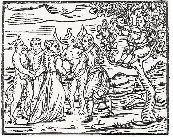 Wood Engraving 18 from the Compendium Maleficarum